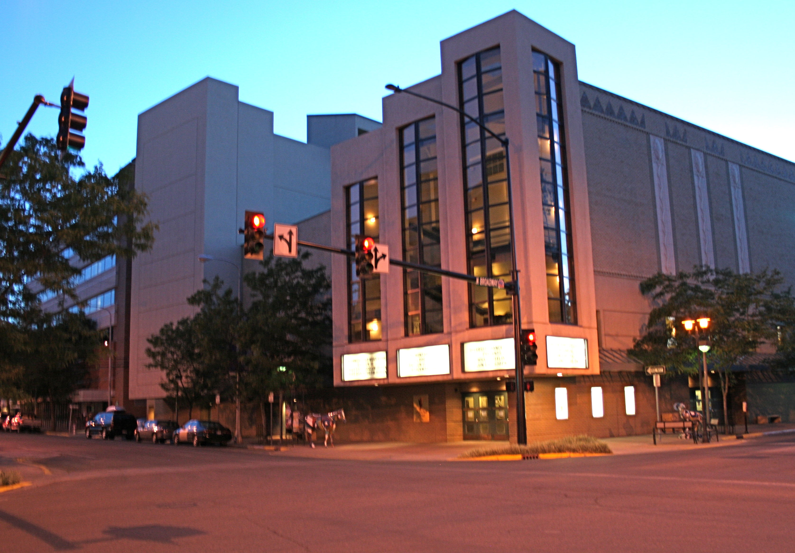 Billings, Montana alberta bair theater